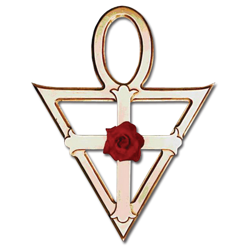 Official insignia of the Rosicrucian OrderRomână: Insigna oficială a Ordinului Roza-Cruce